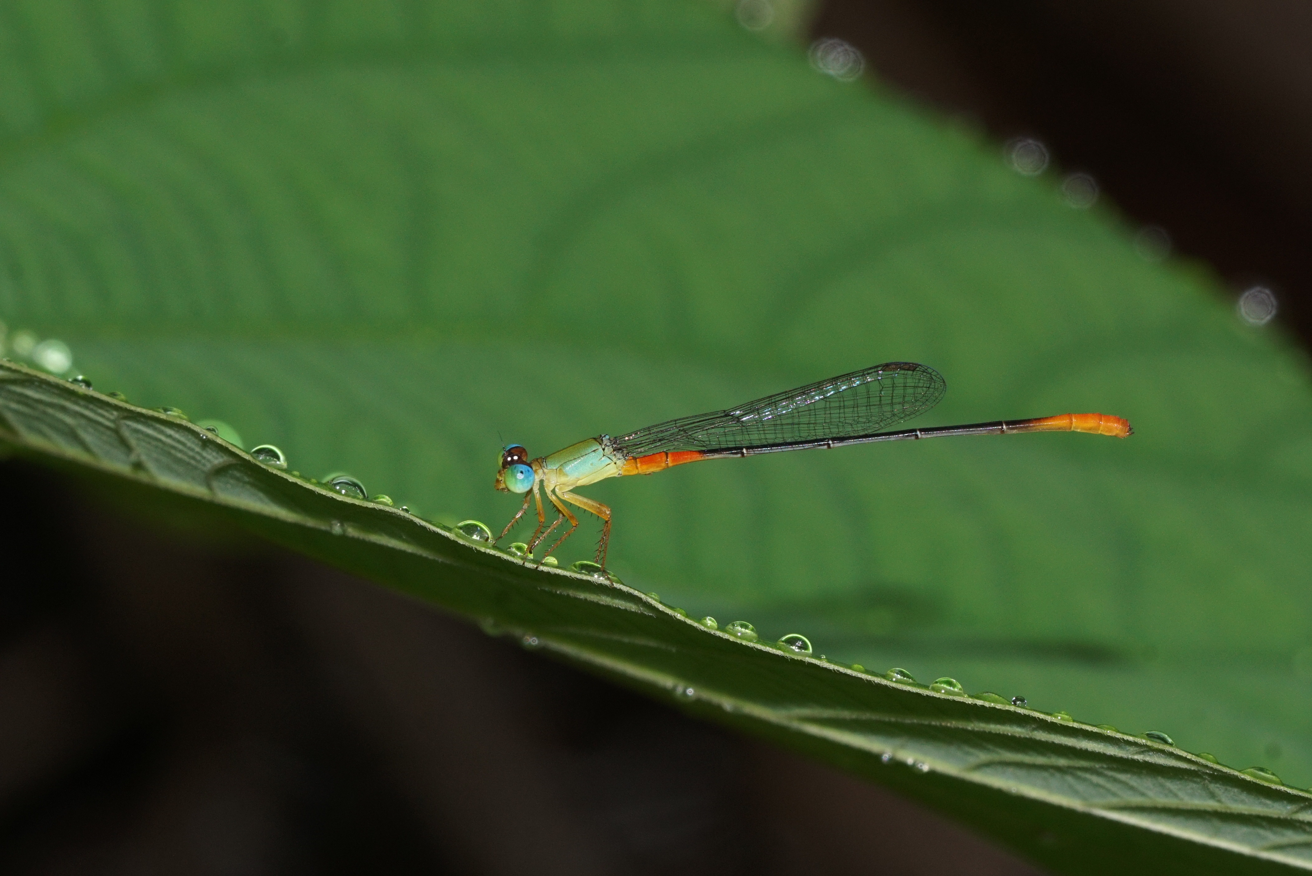 Ceriagrion cerinorubellum